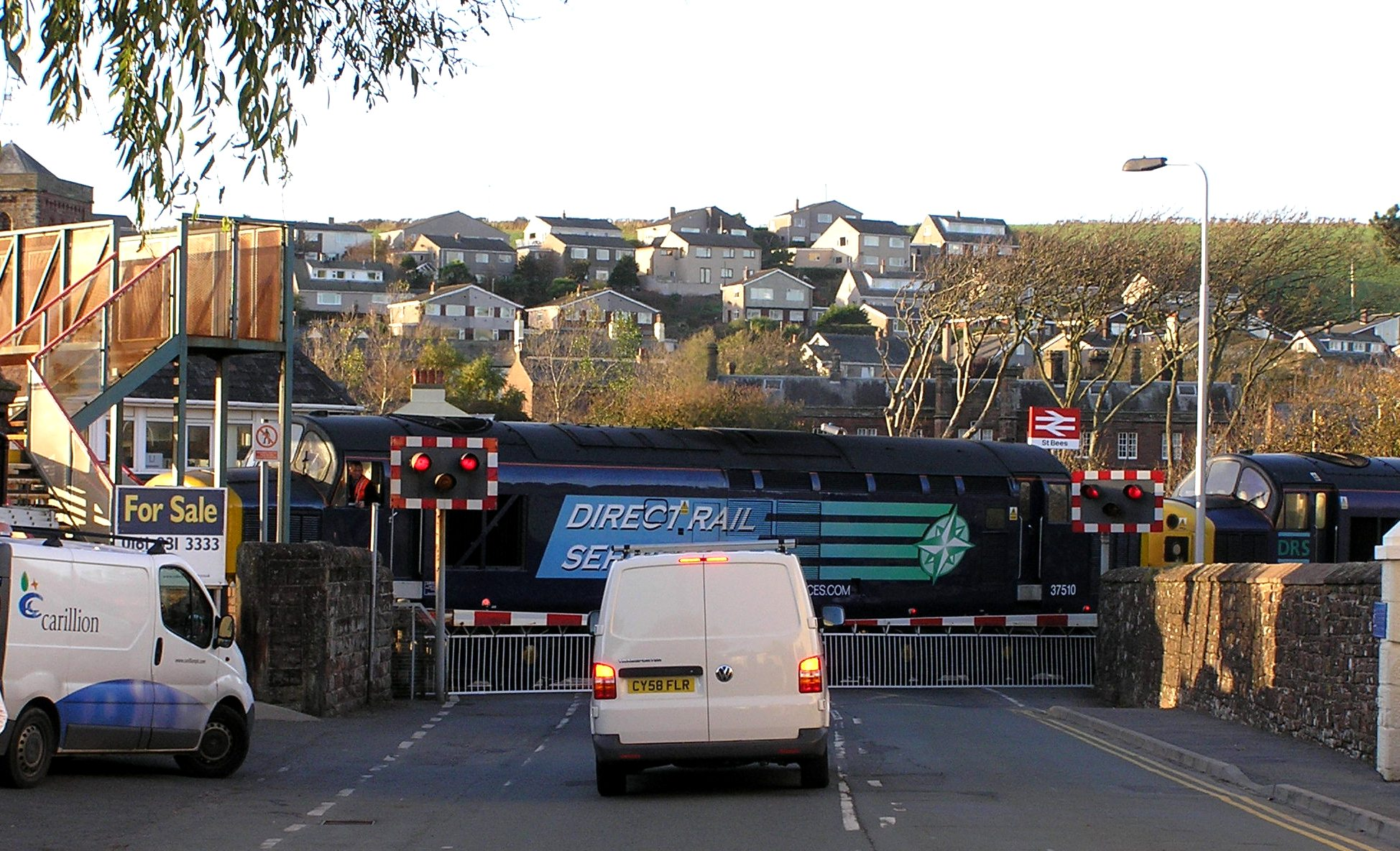 Double headed DRS goods passing through St Bees Railway Station - October 2009